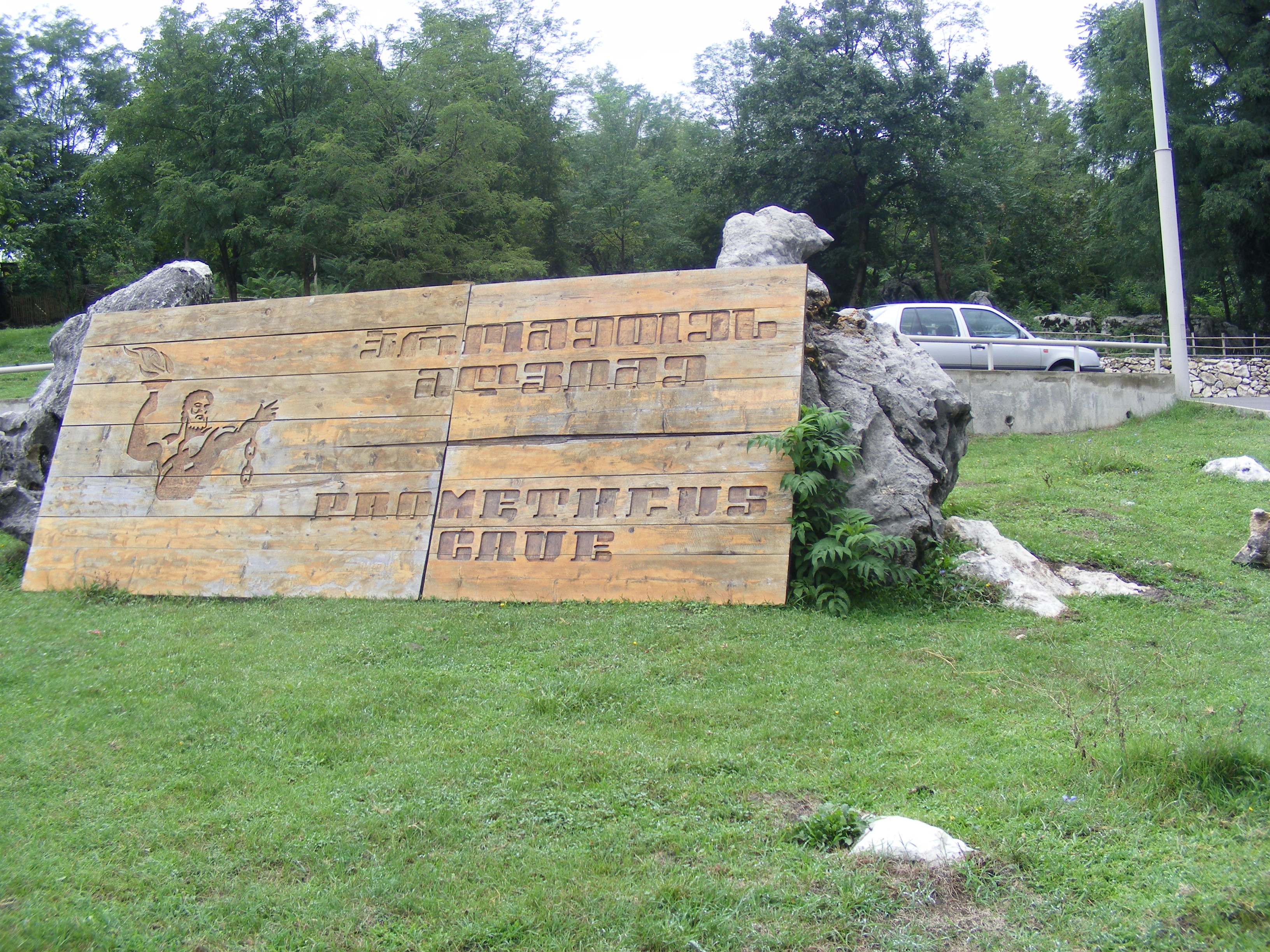 Tskaltubo District